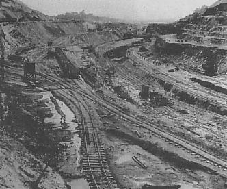 Okozu Canal under construction